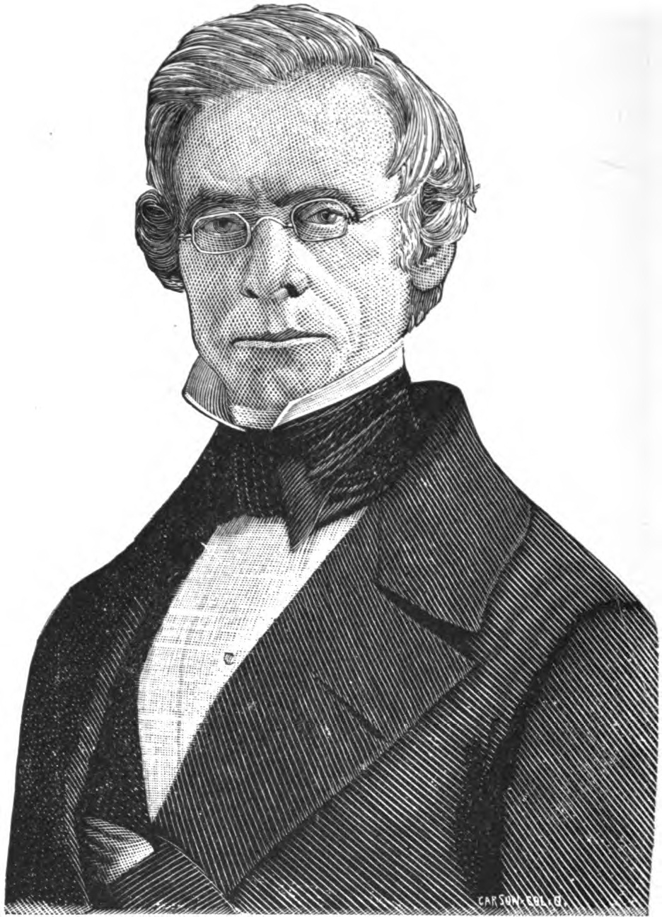 Samuel Finley Vinton .